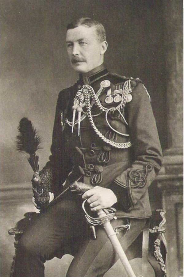 George Theslinger